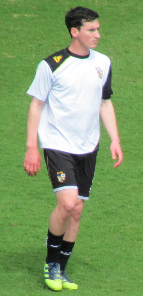 Pictured during the 2-2 draw between Port Vale and Northampton Town on 20 April 2013.